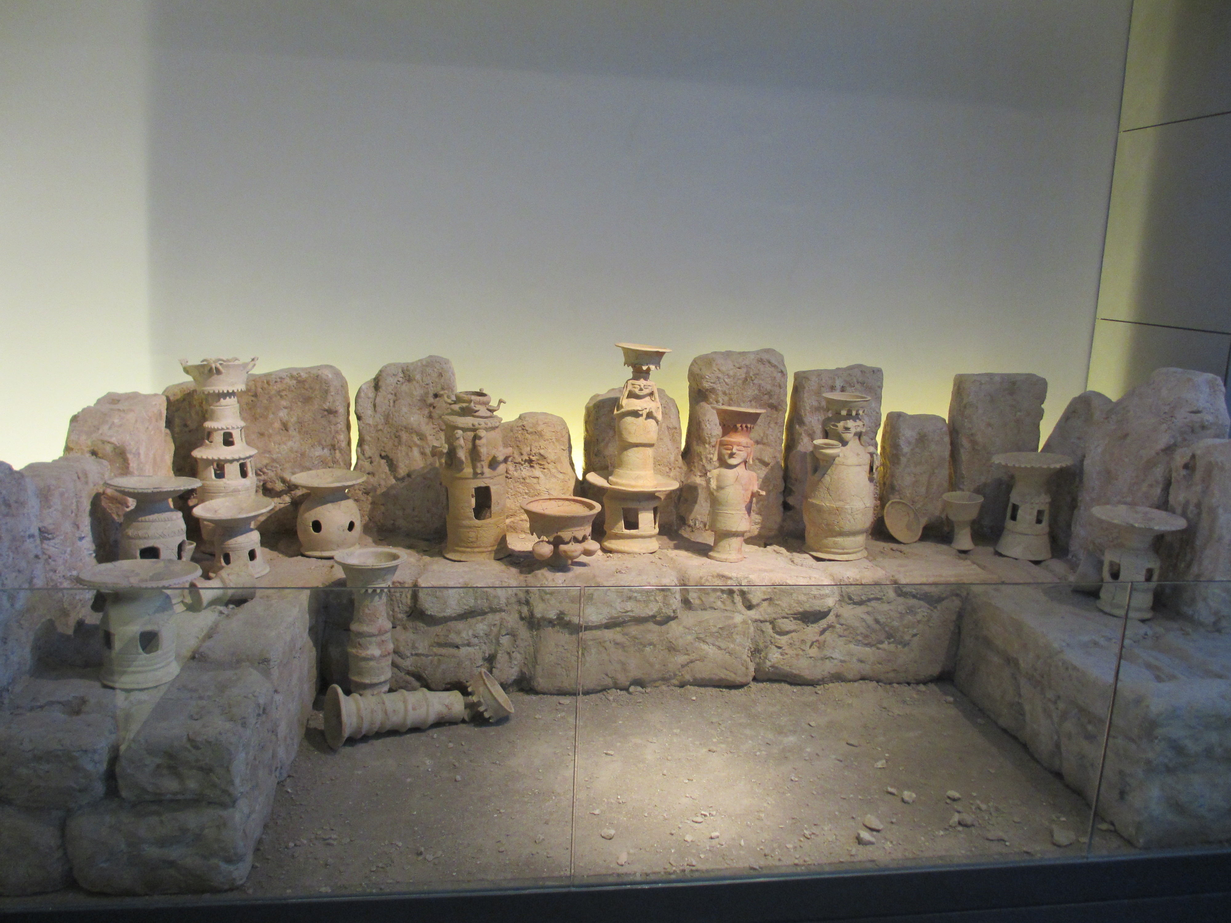 Edomite clay stands from Hazeva (7th-6th BCE). Israel Museum, Jerusalem